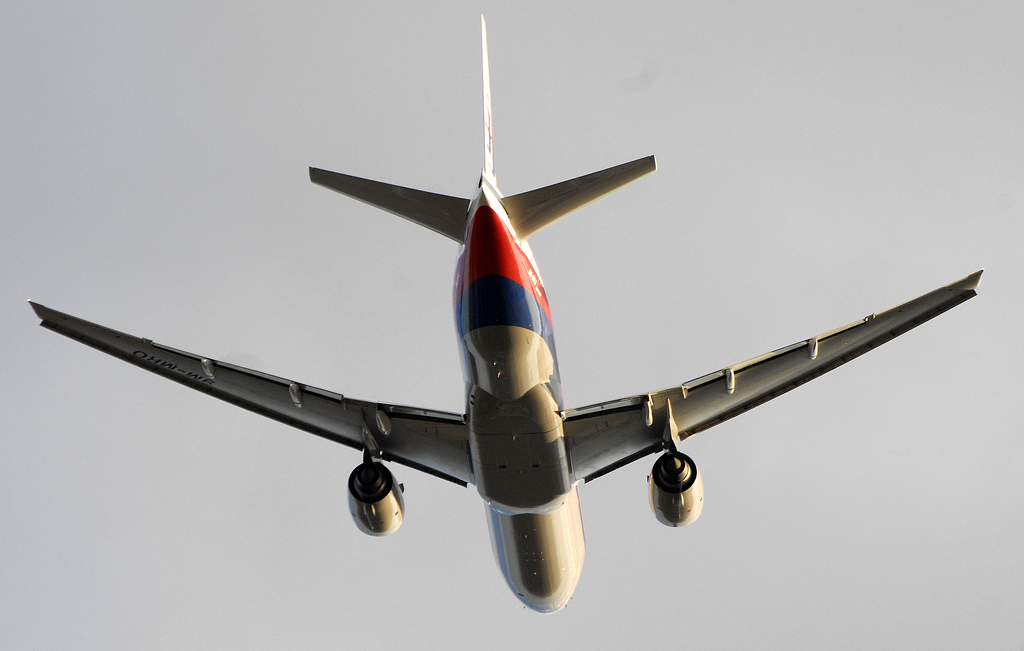 departing crosswind runway 24